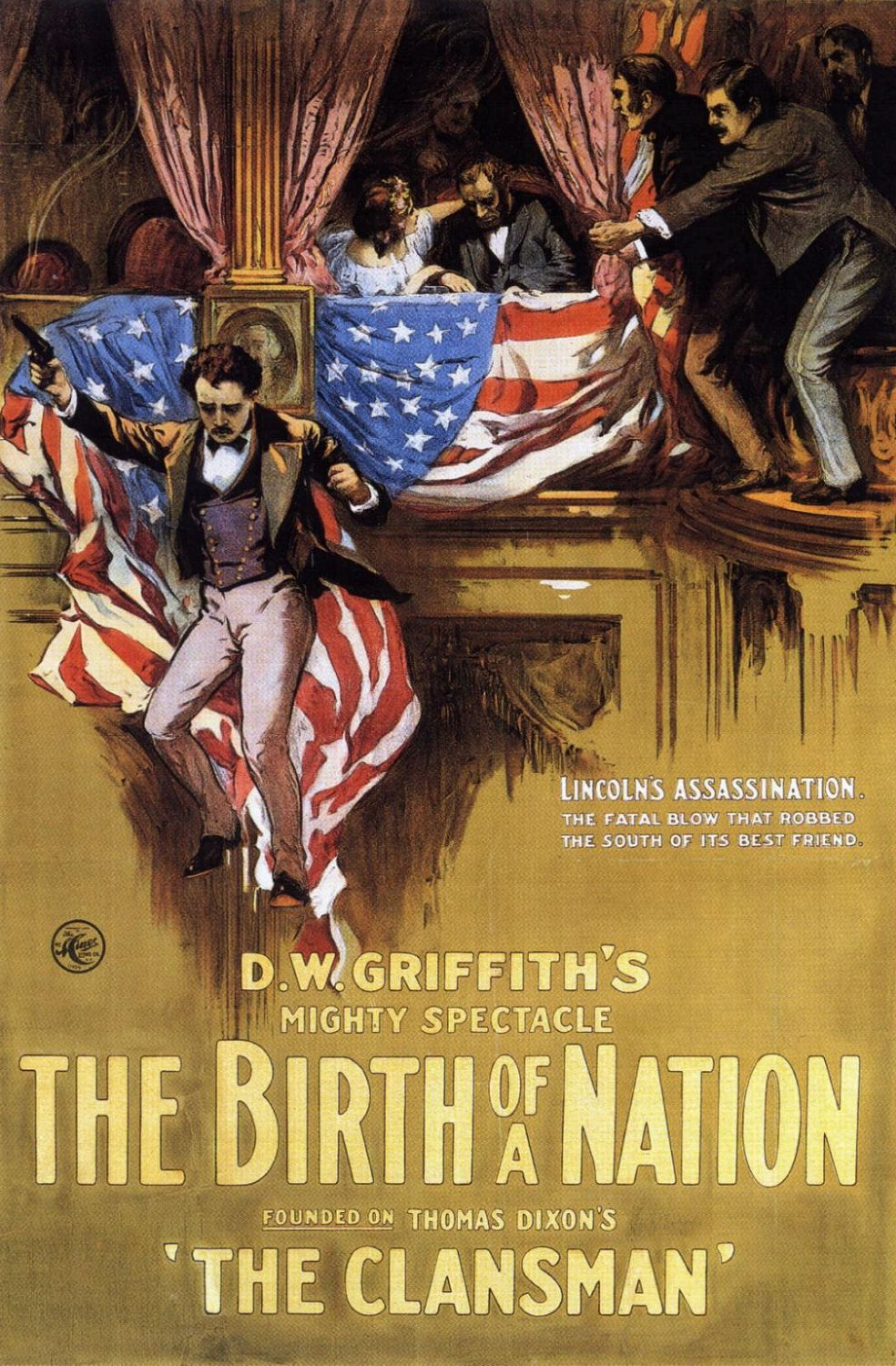 A poster of the movie The Birth of a Nation, distributed by Epoch Film Co.